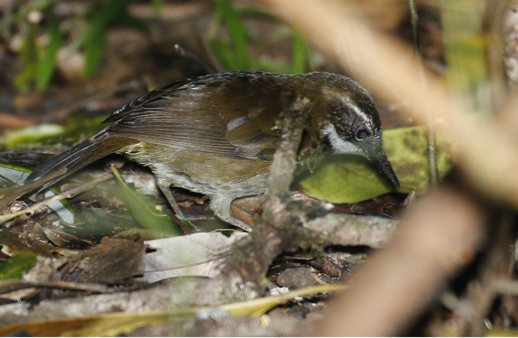 Near Mount Lewis - Australia